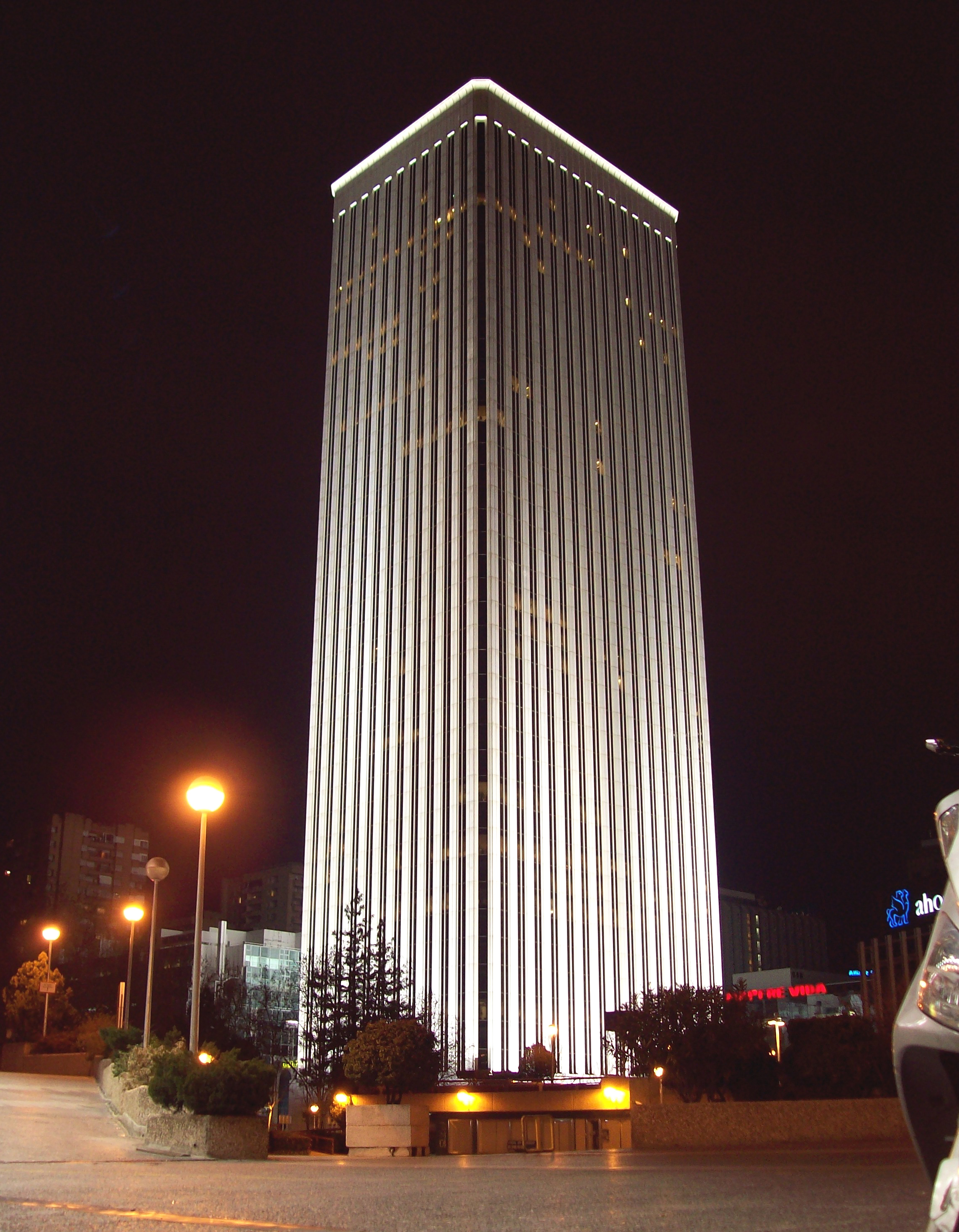 Night view, from the south-east angle, of Torre Picasso in Madrid (Spain).